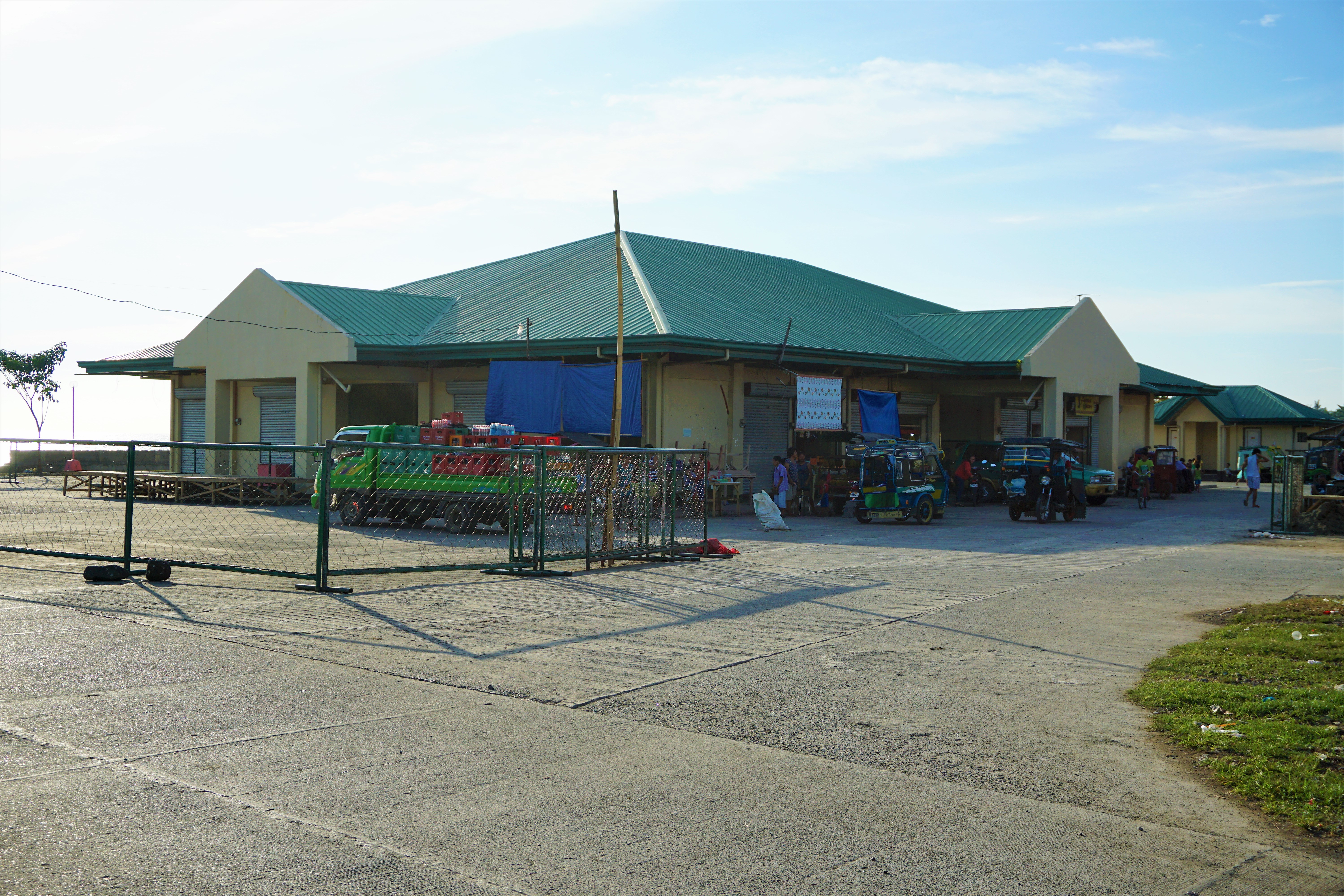 Magallanes Public Market was opened in 2017 during the Mayor Demos Arabaca Administration.